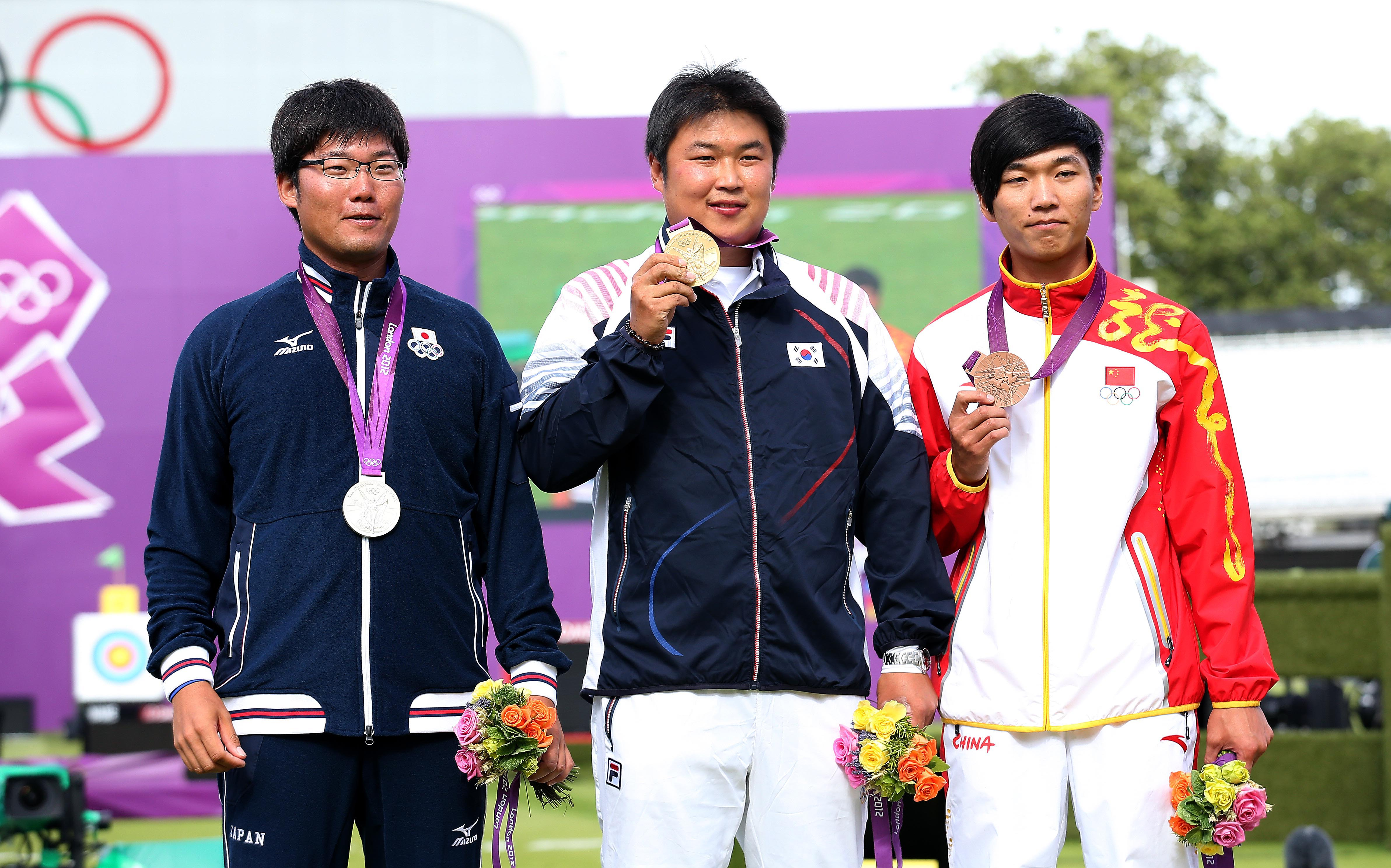 2012 London Olympic Games Korea Oh Jin Hyek won the gold medal in men's individual archery 2012. 08.04. hoto by Korean Olympic Committee Ministry of Culture, Sports and Tourism Korean Culture and Information Service 2012 런던 올림픽 한국 남자 양궁 개인전 오진혁 금메달 획득 사진제공 - 대한체육회 문화체육관광부 해외문화홍보원